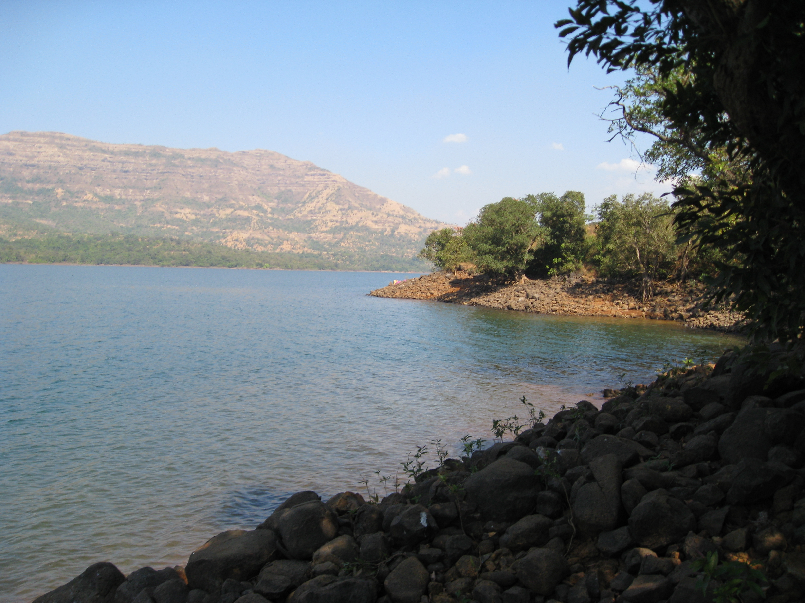 Mulashi Dam,Pune INDIA